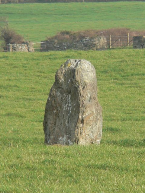 The Llanynghenedl Standing Stone, Anglesey. A view of the Llanynghenedl Standing Stone, from the A5025.